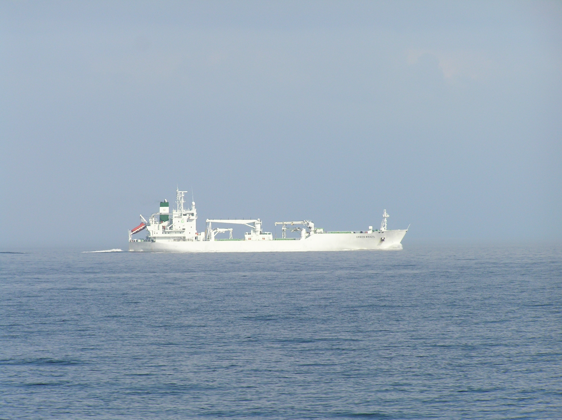 Reefer MS Green Brazil on the Bay of Gdańsk IMO Number: 9045792 MMSI Number: 309681000 Callsign: C6WH6 Length: 131 m Beam: 20 m